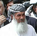 Ismail Khan, current Minister of Energy, and former governor of Herat.